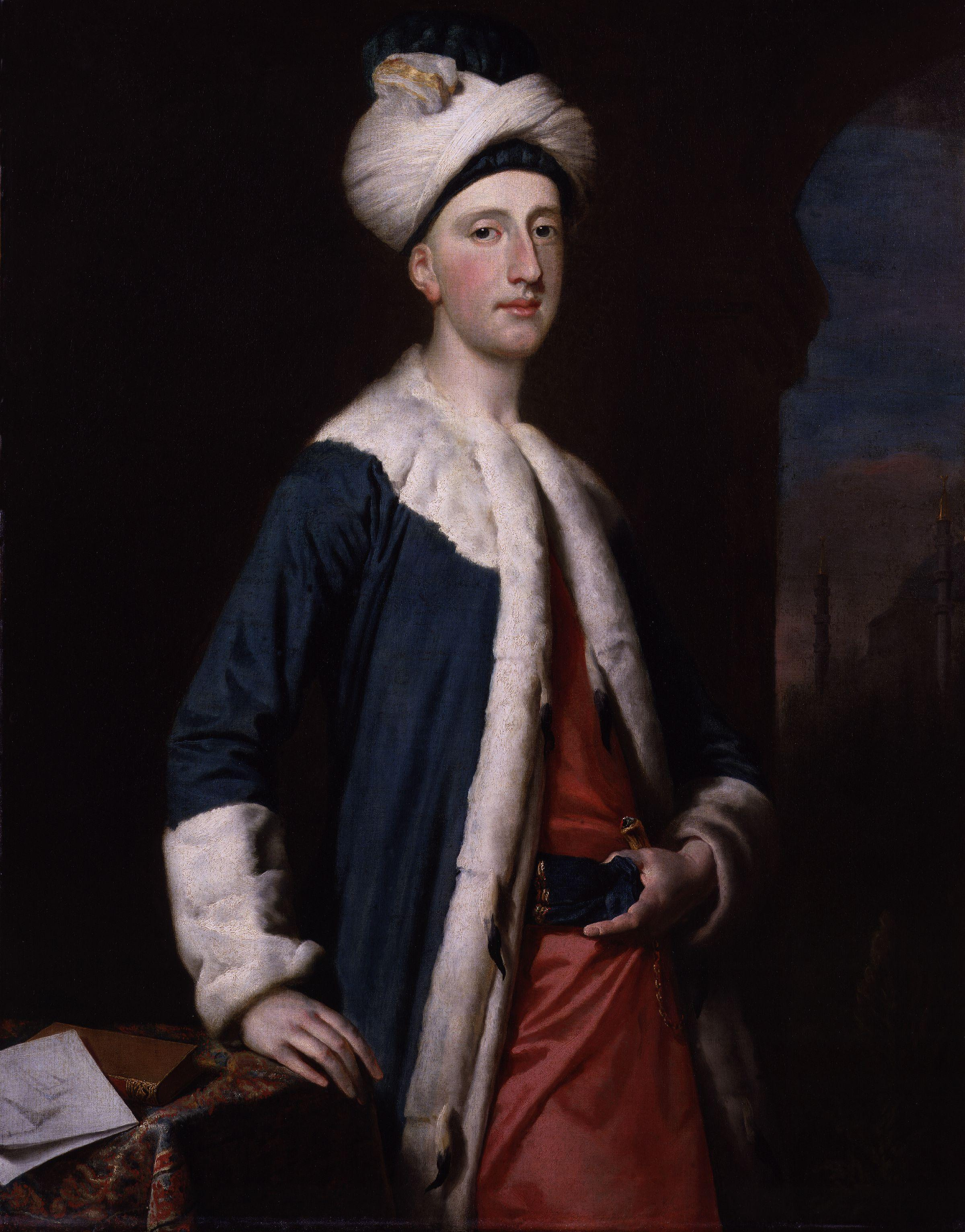 All images in this batch have been confirmed as author died before 1939 according to the official death date listed by the NPG. Given to the National Portrait Gallery, London in 1923.